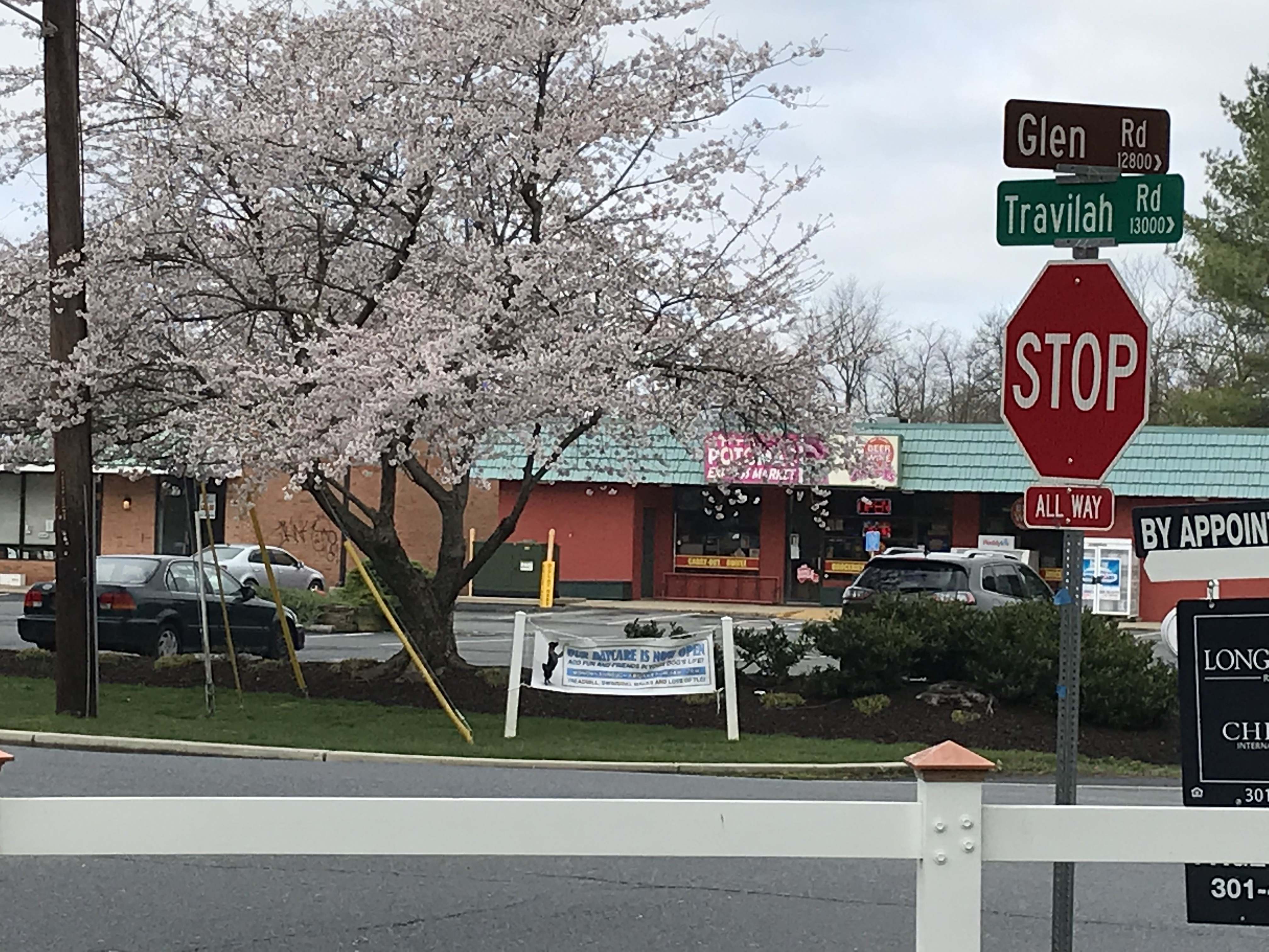 Potomac Oak Center - a shopping center in Travilah, Maryland